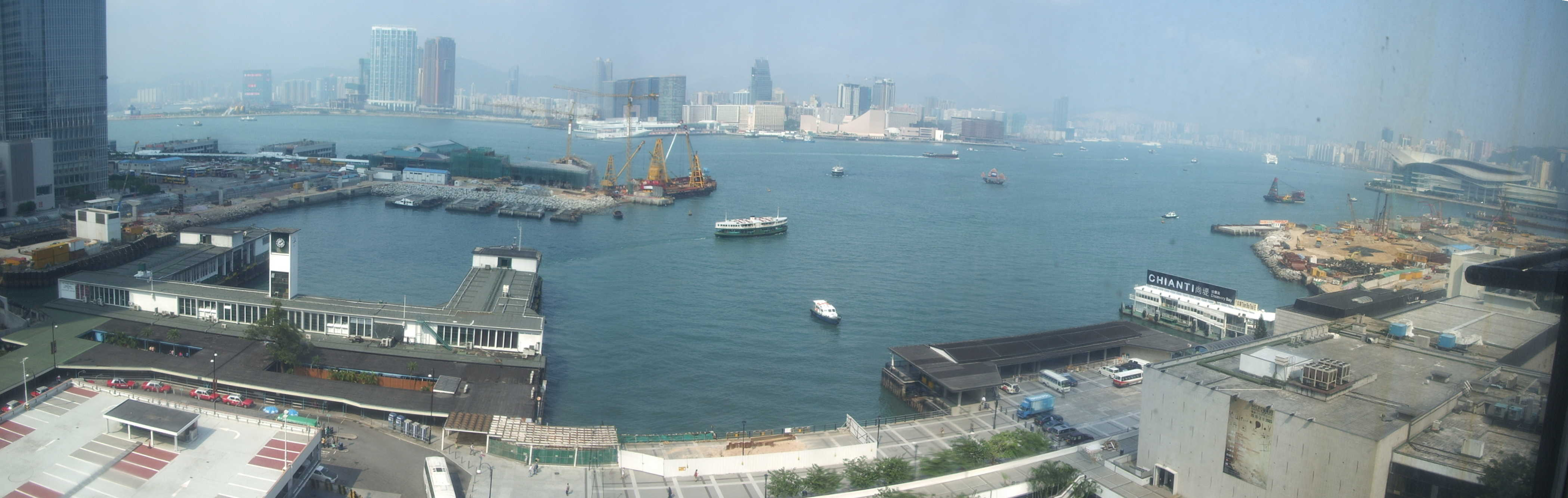 View of Star Ferry and Queen's Pier being engulfed by reclamation projects in Victoria Harbour. Taken from 10th Floor, City Hall High Block, Central, Hong Kong on 14 October 2005 by Carlsmith.